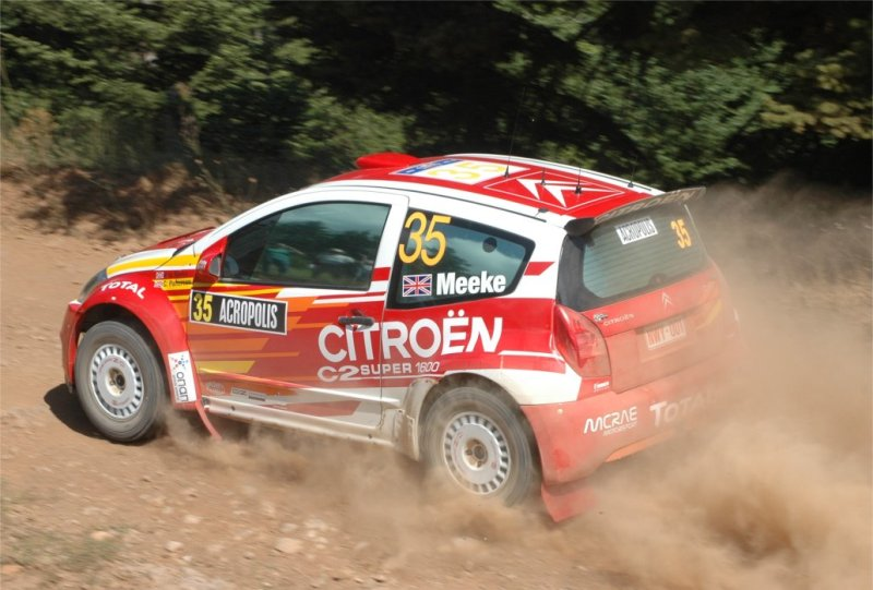 Kris Meeke driving a Citroën C2 S1600 at the 2005 Acropolis Rally.